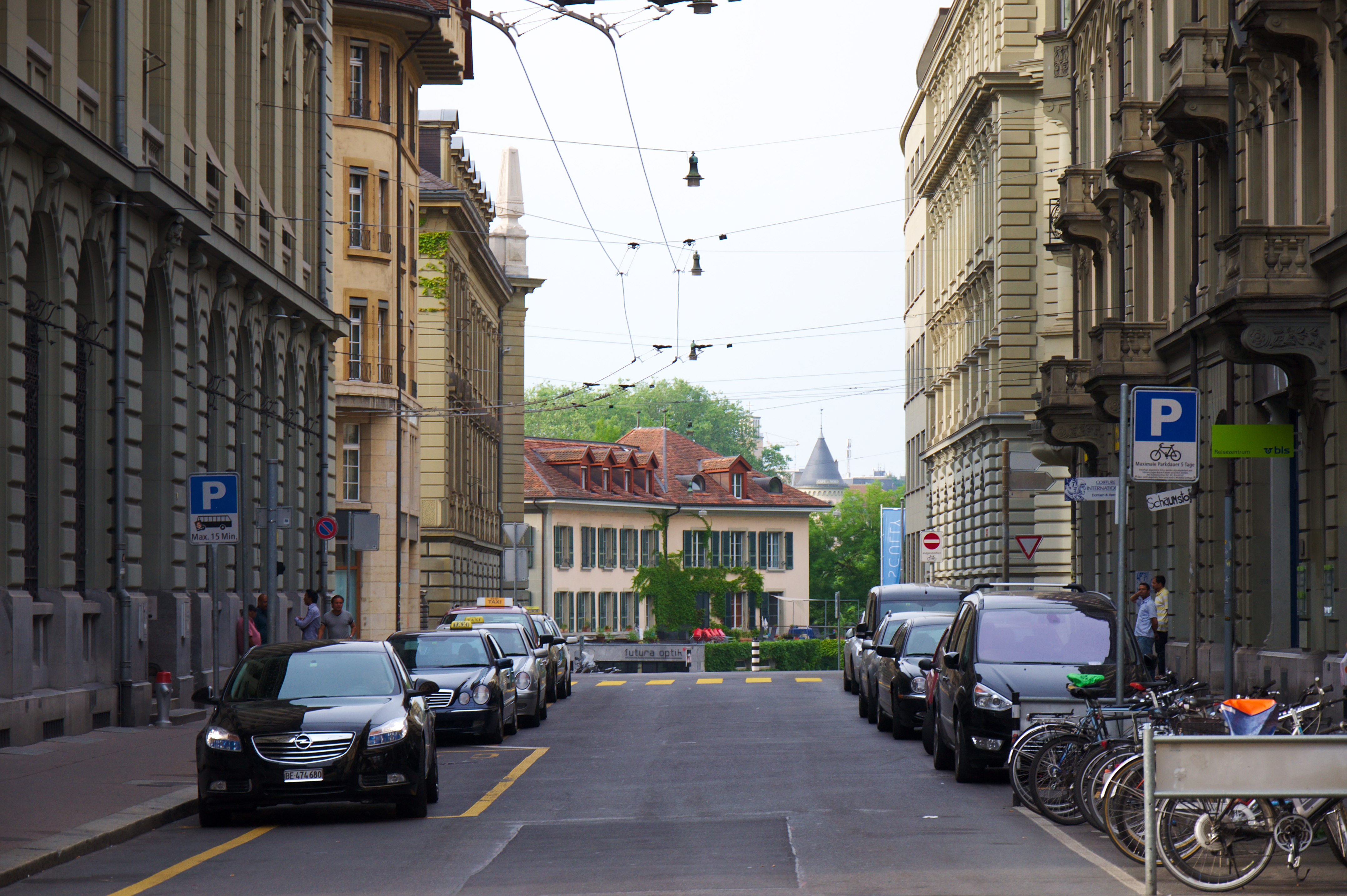 Genfergasse in Berne, Switzerland